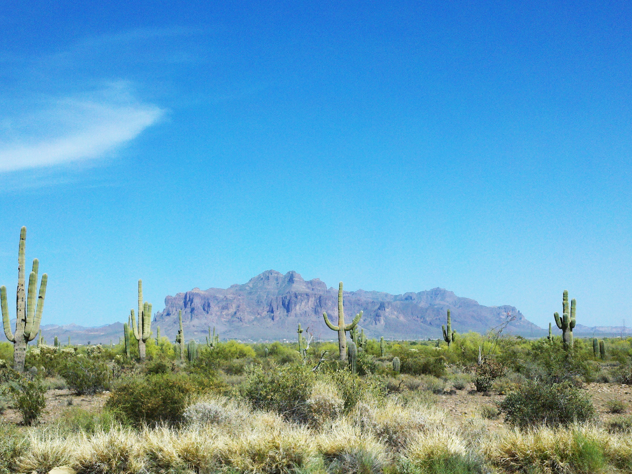 Superstition Mountains as Seen From Meridian Road